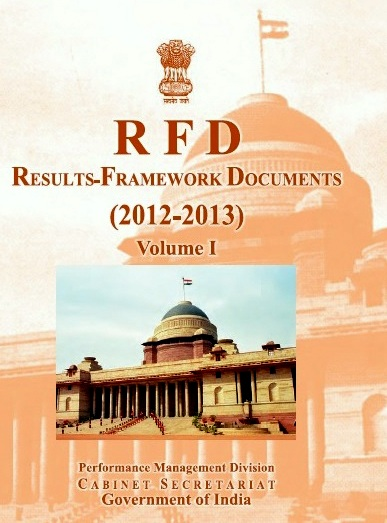 It is the cover page of RFD(Results Framework Document)which is a PMES tool,i.e,tool for measuring performance